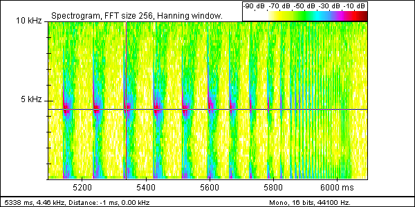 Spectrogram of bat feeding part of Keoka070706PpgFD.ogg